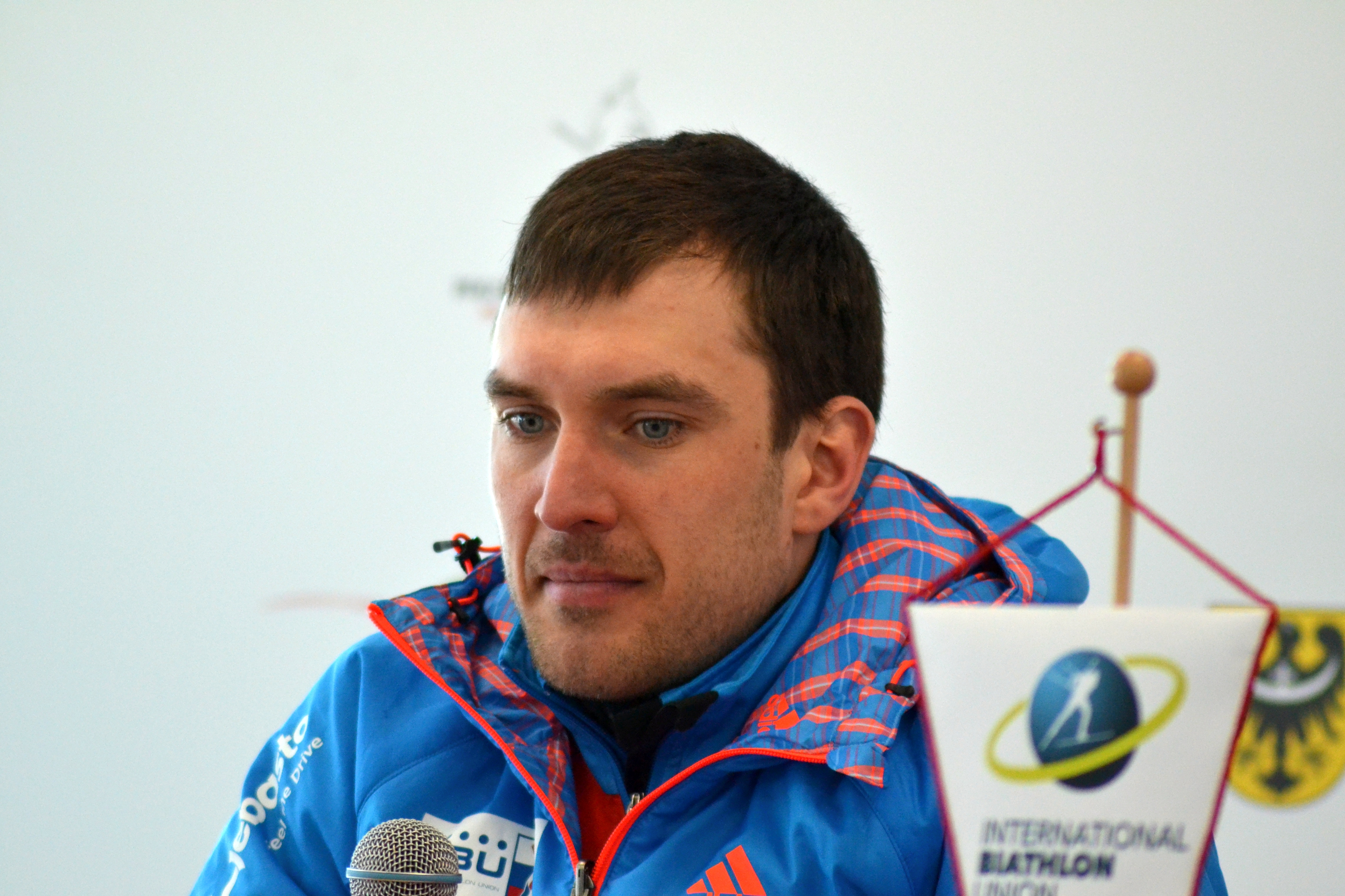 Open European Championships Biathlon 2017, Men's Pursuit race.